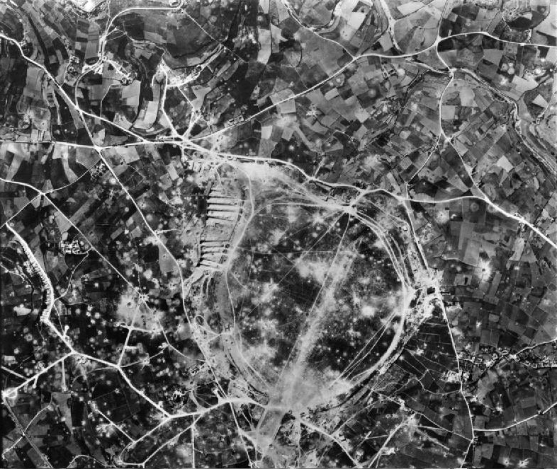 Vertical aerial photograph of Ta Kali airfield, Malta, following the heavy enemy bombing raids of April 1942.